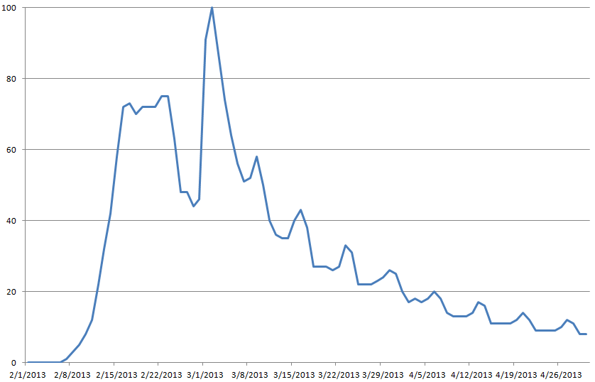 Worldwide web search interest for "Harlem Shake" from February through April 2013. Numbers represent search interest relative to the highest point on the chart, not absolute search volume. Data from Google Trends (